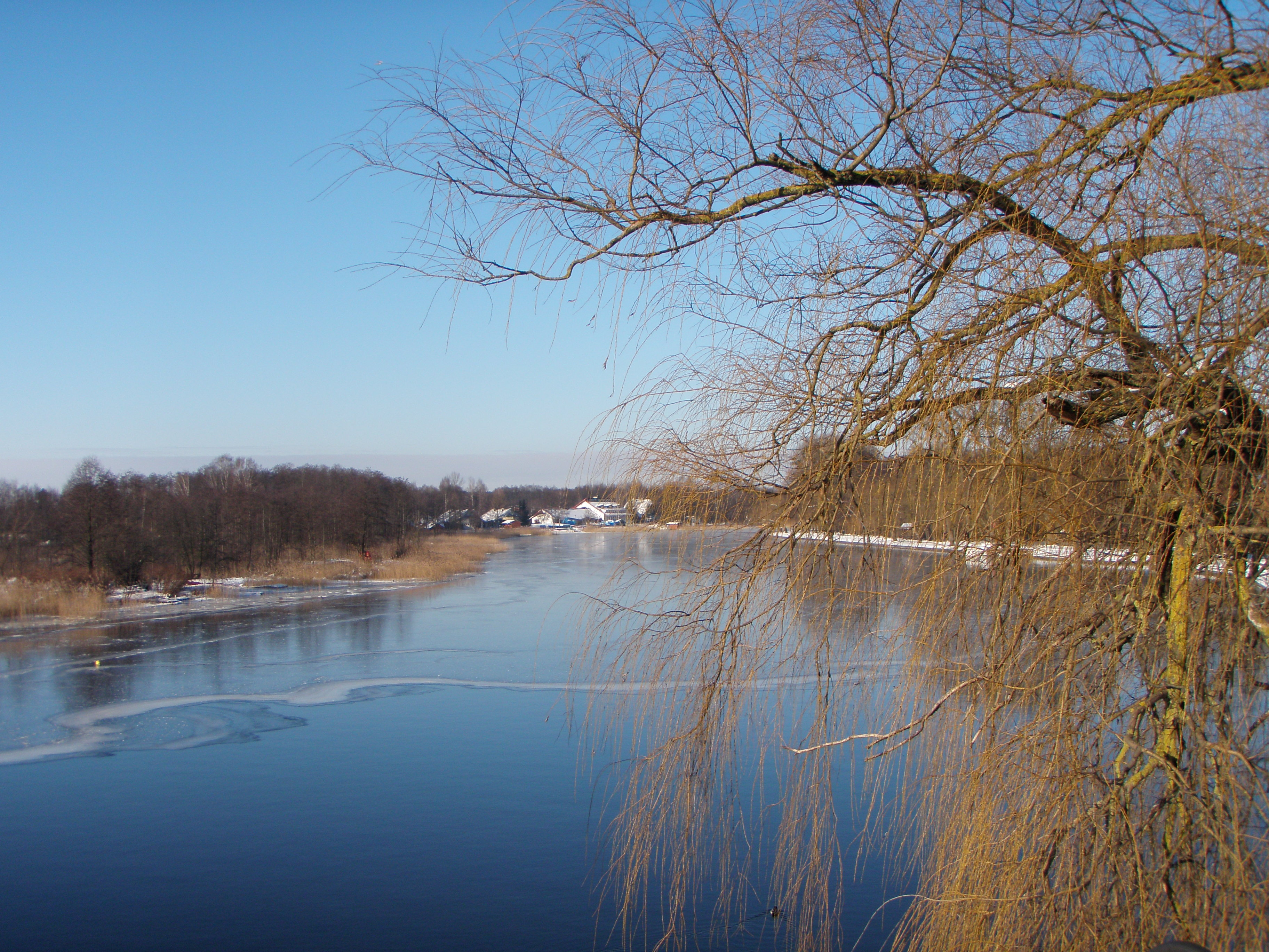 Netta River in Augustów in Poland